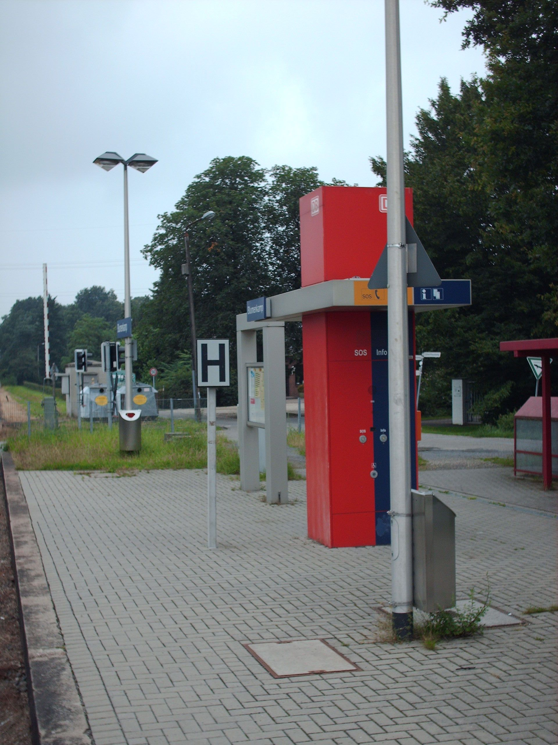 Blumenkamp station, Wesel, Germany check usage